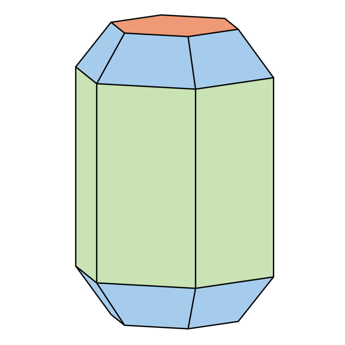 Despujolsite crystal, long prismatic